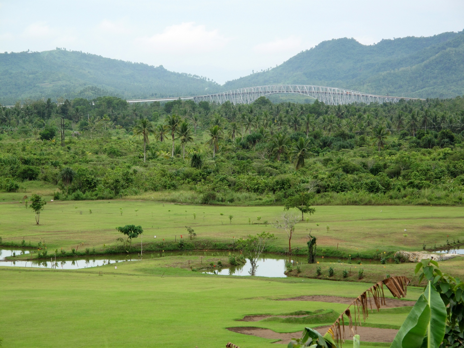 San Juanico Golf Club with San Juanico Bridge in the distance